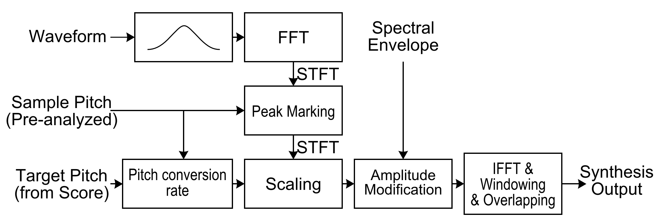 Vocaloid Synthesis Engine Note: there is a set of pre-rendered images to avoid the quality loss of original SVG image. You can use these as following: File:Vocaloid Synthesis Engine - en.220px.jpg|link=File:Vocaloid Synthesis Engine - en.jpg|thumb|...